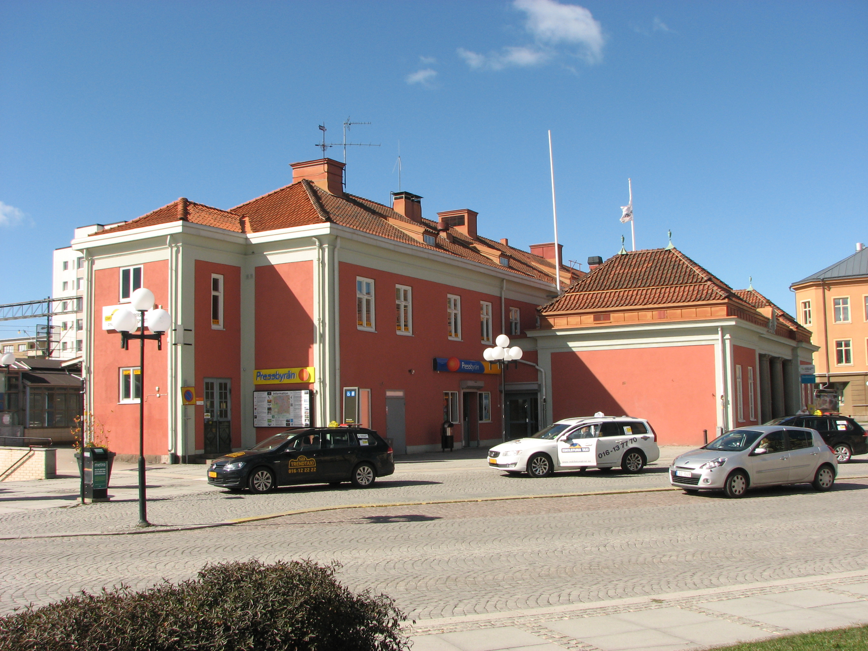 Eskilstuna central station in Sweden, 2017.